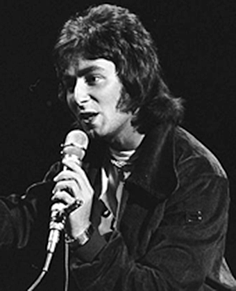 Barry Blue, rop/rock program 'Popzien' on Dutch television